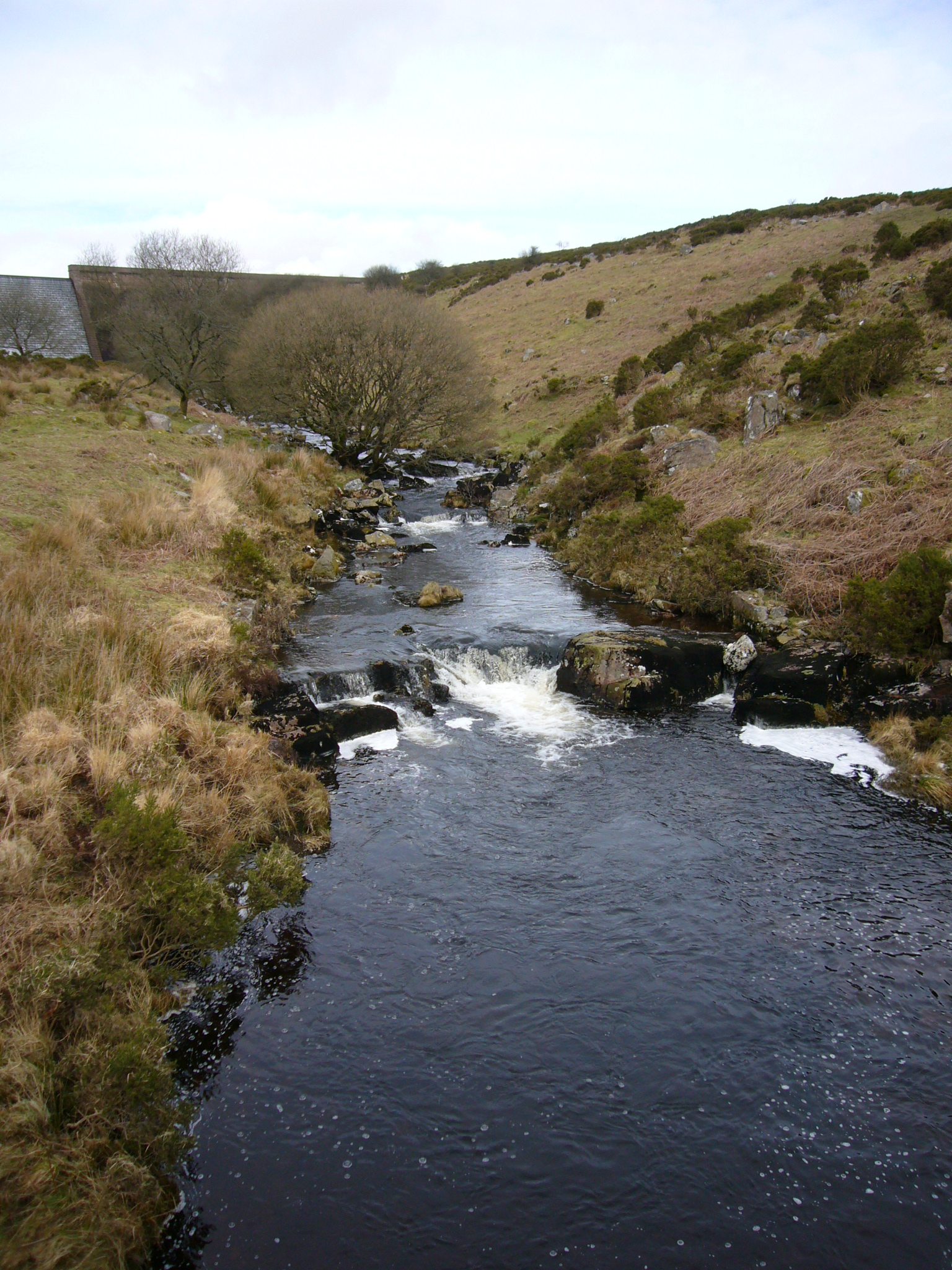 River Avon on Dartmoor just below the Avon dam